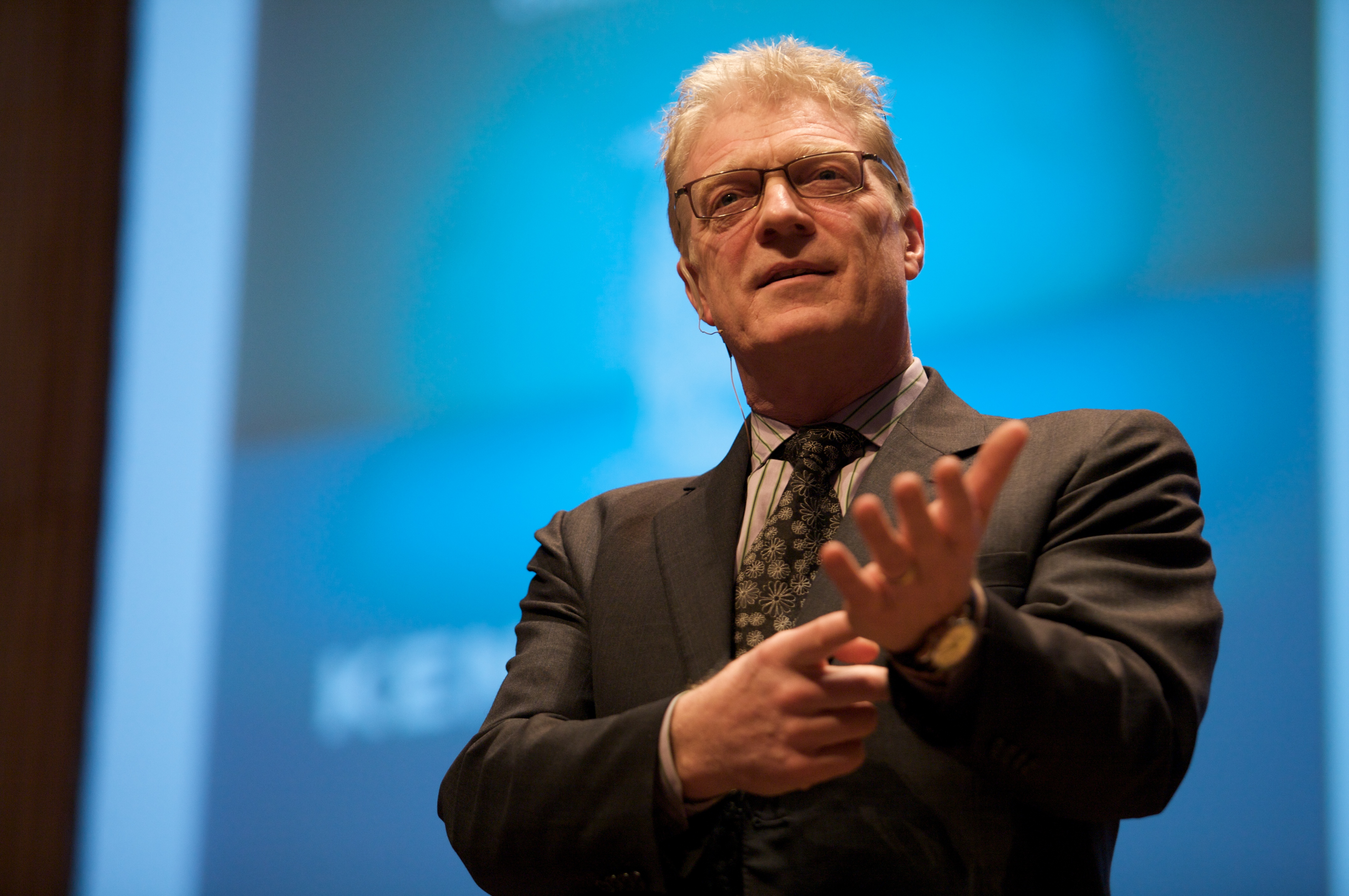 Ken Robinson at the Creative Company Conference, Amsterdam in 2009.